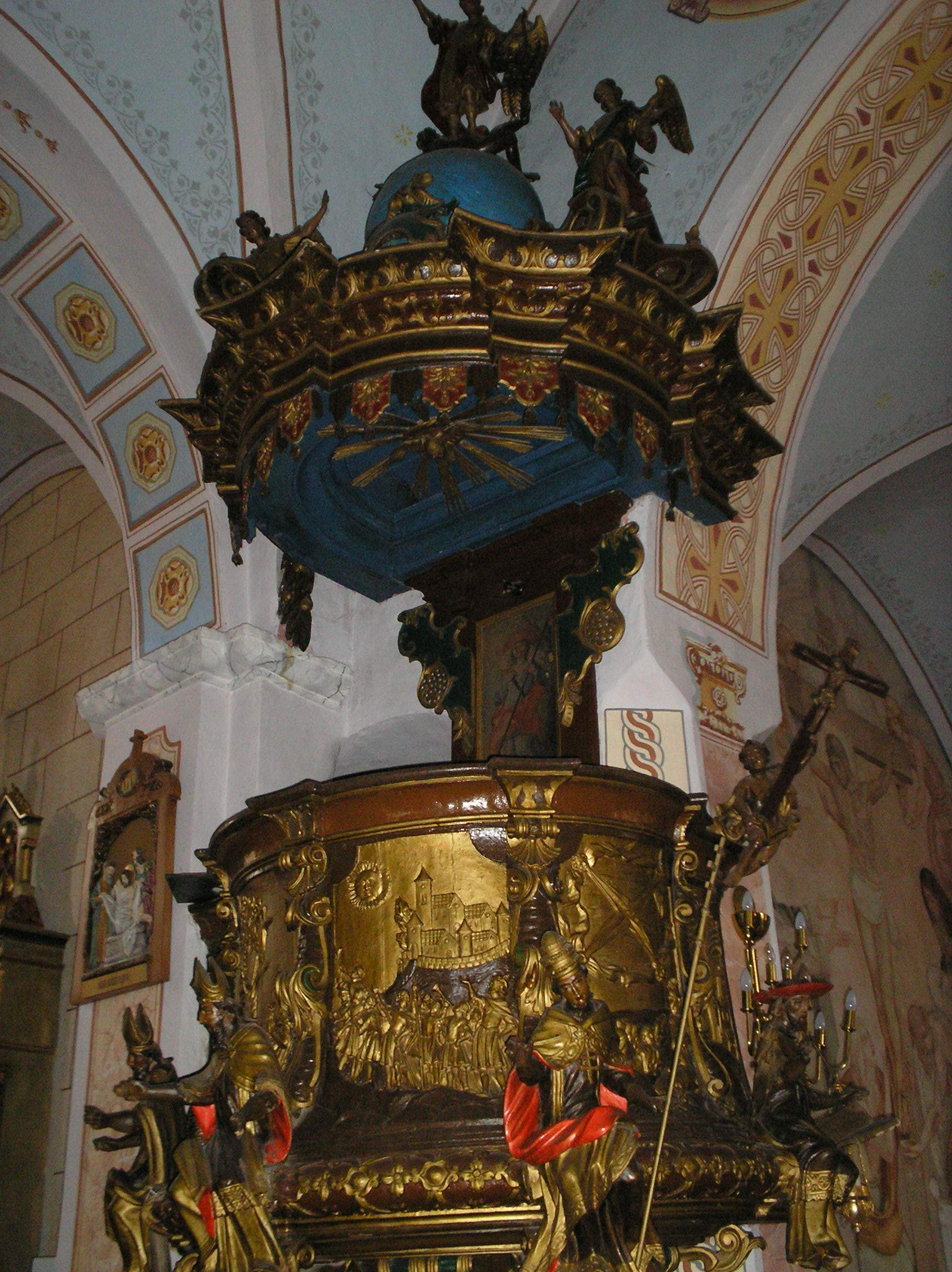 Church of Holly Trinity, City of Ludbreg, Croatia